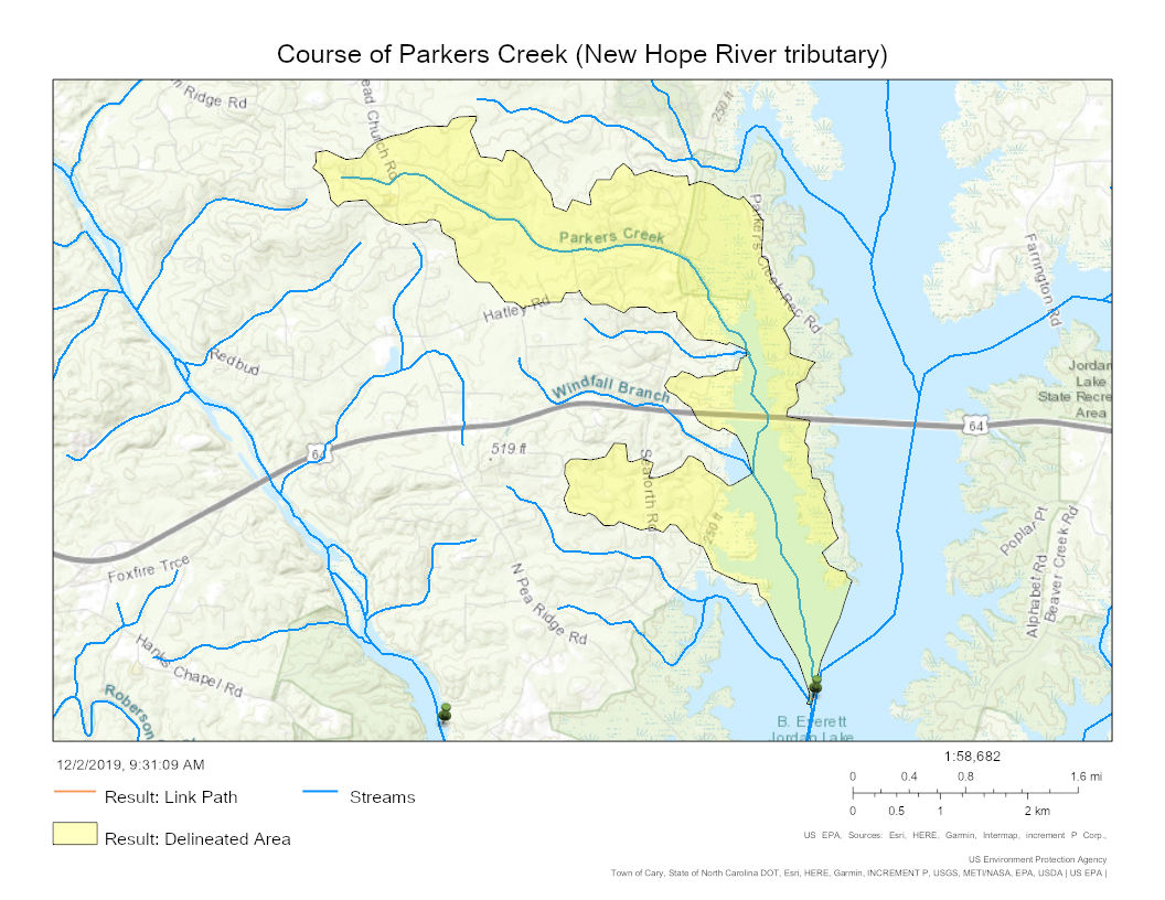 Map of the main course of Parkers Creek (New Hope River tributary) in Chatham County, North Carolina.